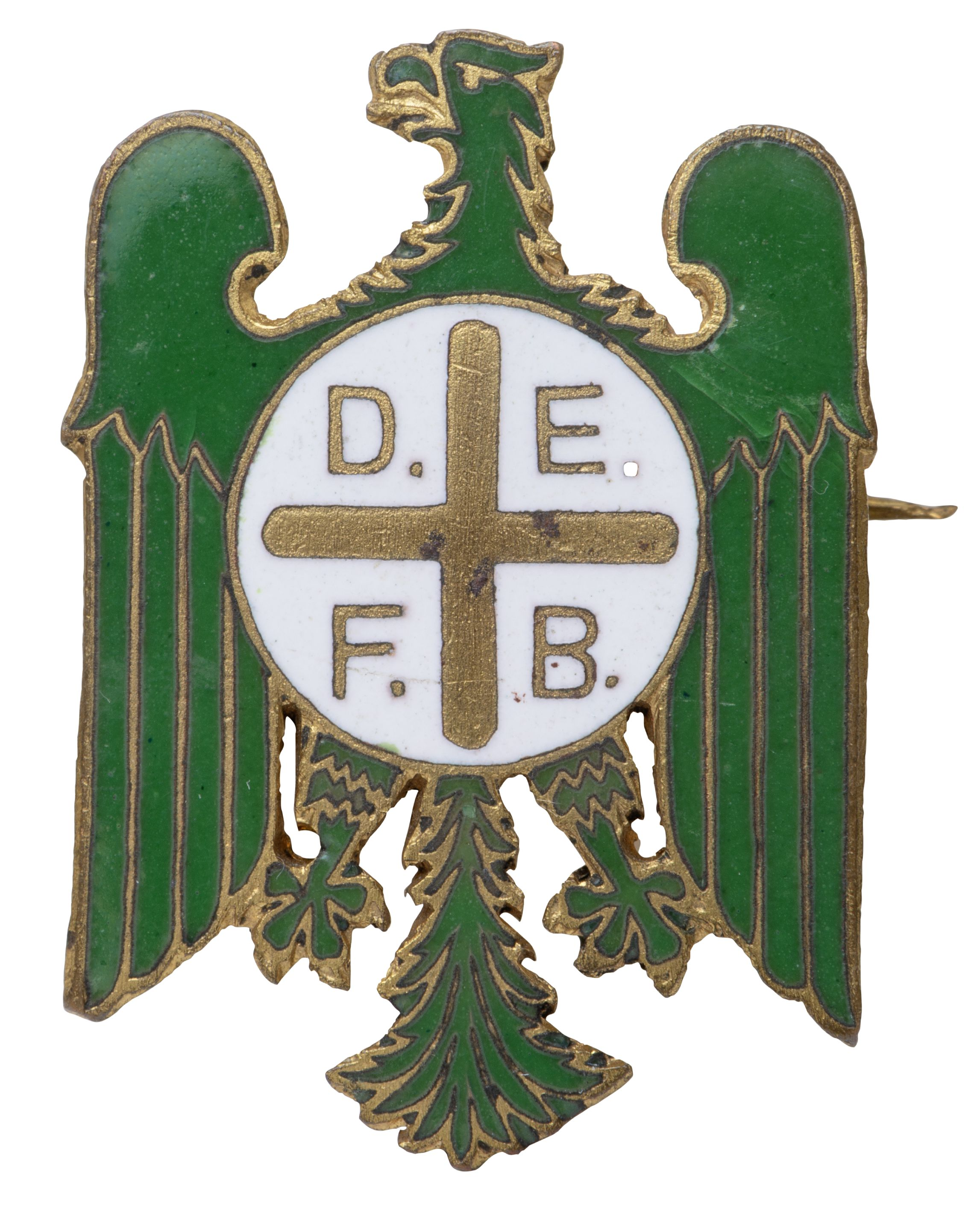 Deutsch-Evangelischer Frauenbund (German-protestant Women's Association), lapel badge, metal, about 1915. Photo of badge in repository of Archiv der deutschen Frauenbewegung (Archive of German Women's Movement), Kassel, Signature NL-K-16; N-6. Photographer: Horst Ziegenfusz on behalf of Historisches Museum Frankfurt (Historical Museum Frankfurt). Published in Dorothee Linnemann (ed.): Damenwahl! 100 Jahre Frauenwahlrecht. Begleitbuch zur Ausstellung. Societäts-Verlag, Frankfurt am Main 2018, ISBN 978-3-95542-306-3, p. 65.